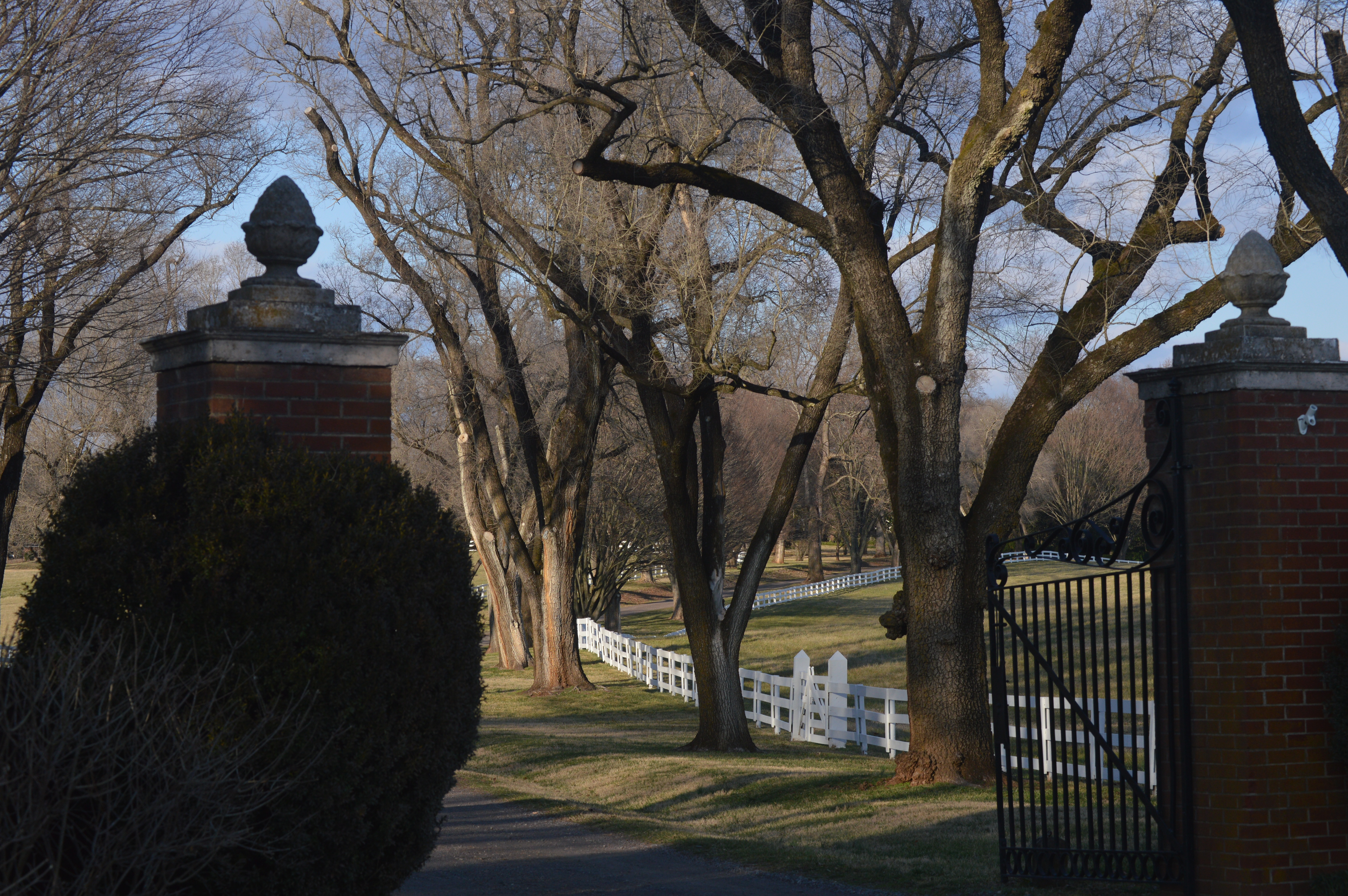 Entrance to the Tetley property, located along Liberty Mills Road northeast of Somerset in Orange County, Virginia, United States. The estate is listed on the National Register of Historic Places.